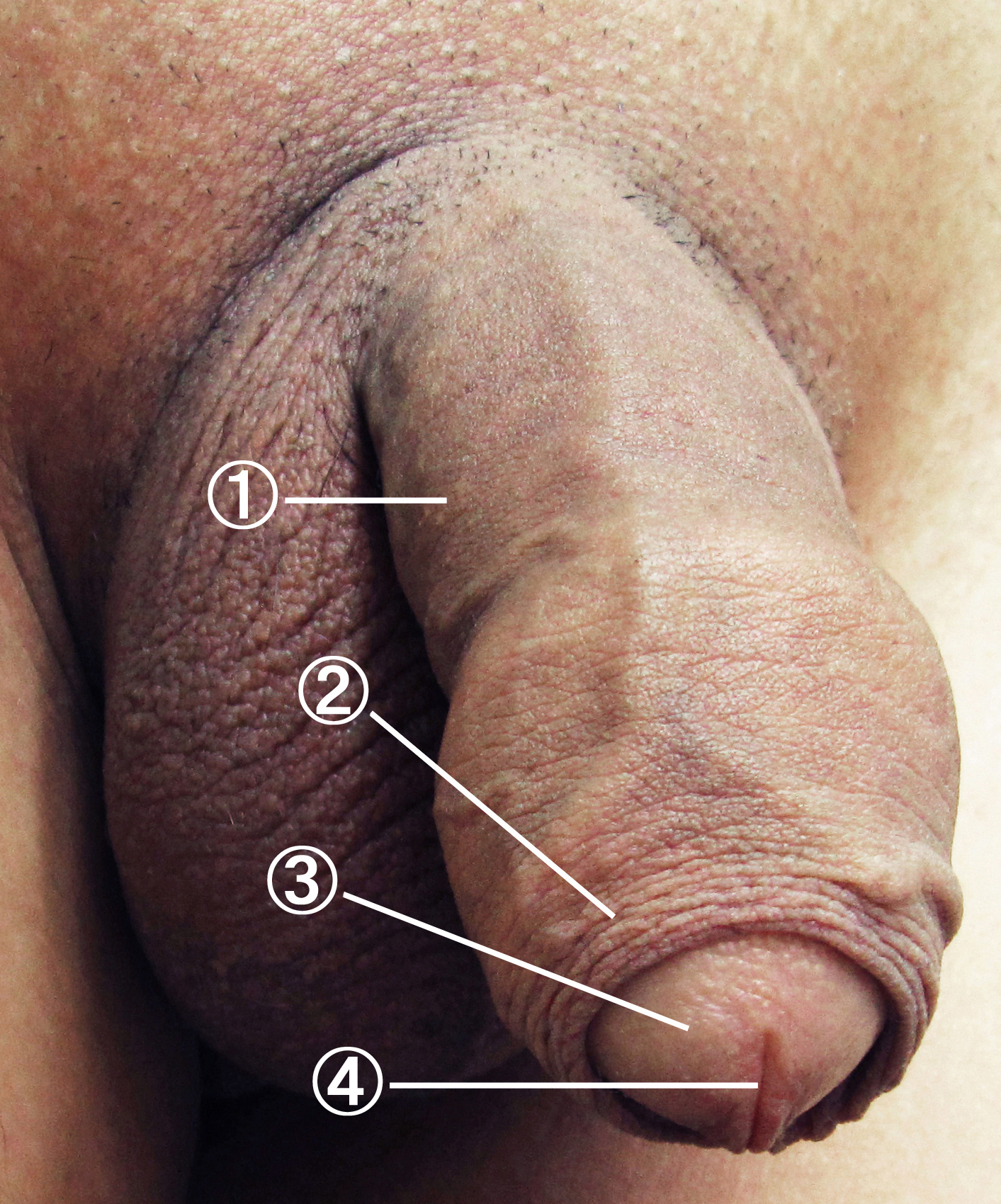 uncirmcised human penis, flaccid, with numbers: 1-shaft; 2-foreskin; 3-glans; 4-meatus